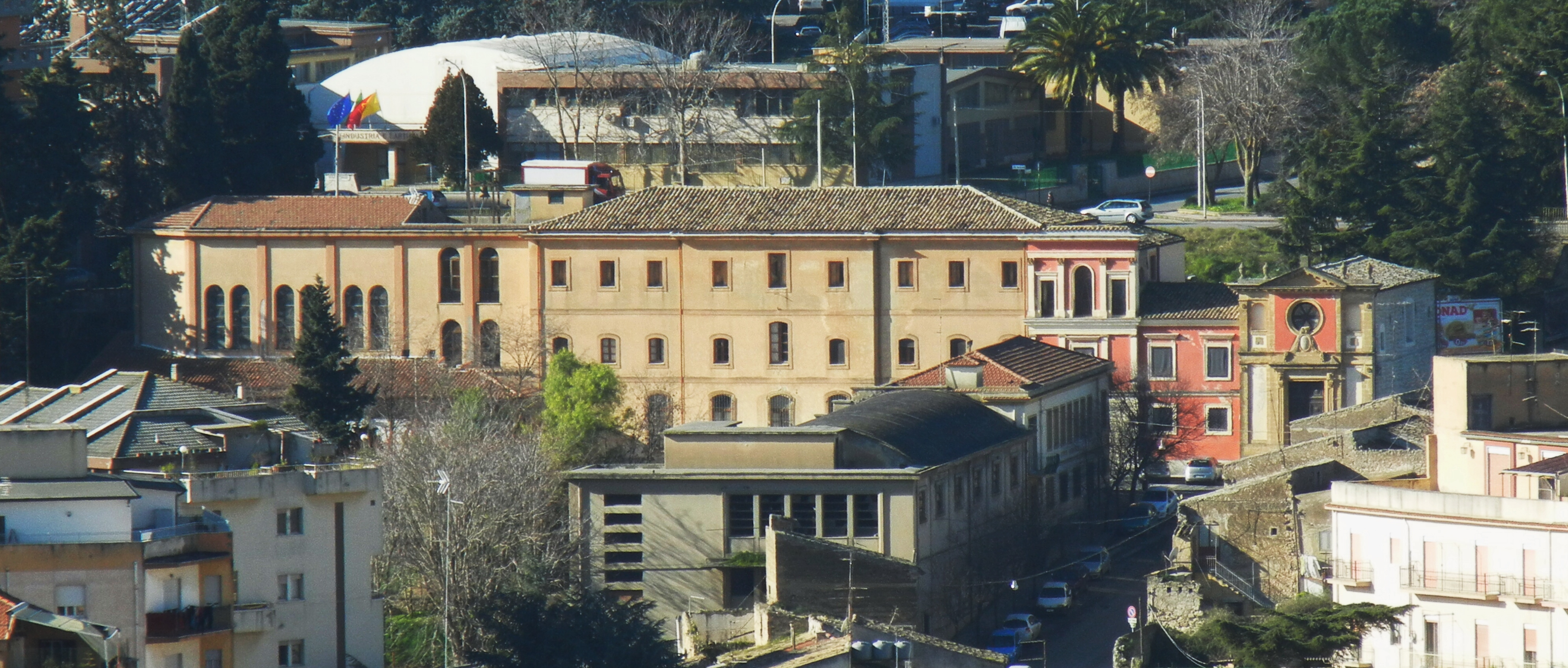 Church and convent of San Michele in Caltanissetta, Italy, within the urban fabric